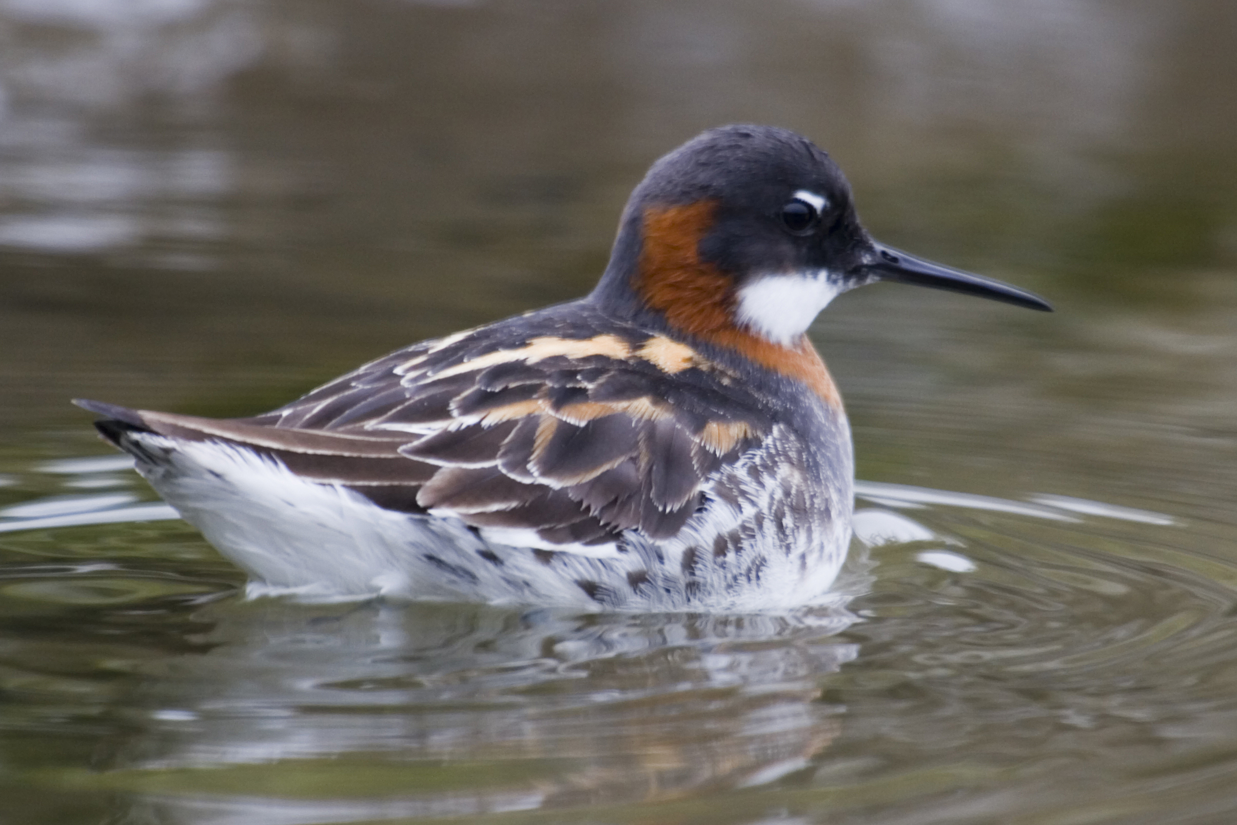 Red-necked Phalarope, Adult breeding, 15may2007, Morro Bay, CA Estuary - handheld from an outrigger canoe - Photo by Mike Baird